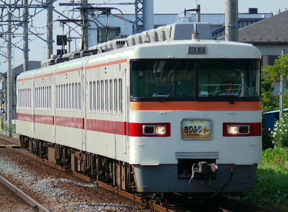 Tobu Railway Type 350 ExpressTrain Kirifuri (Japan). 東武350系の特急きりふり号浅草行き列車 姫宮駅にて ホームより撮影